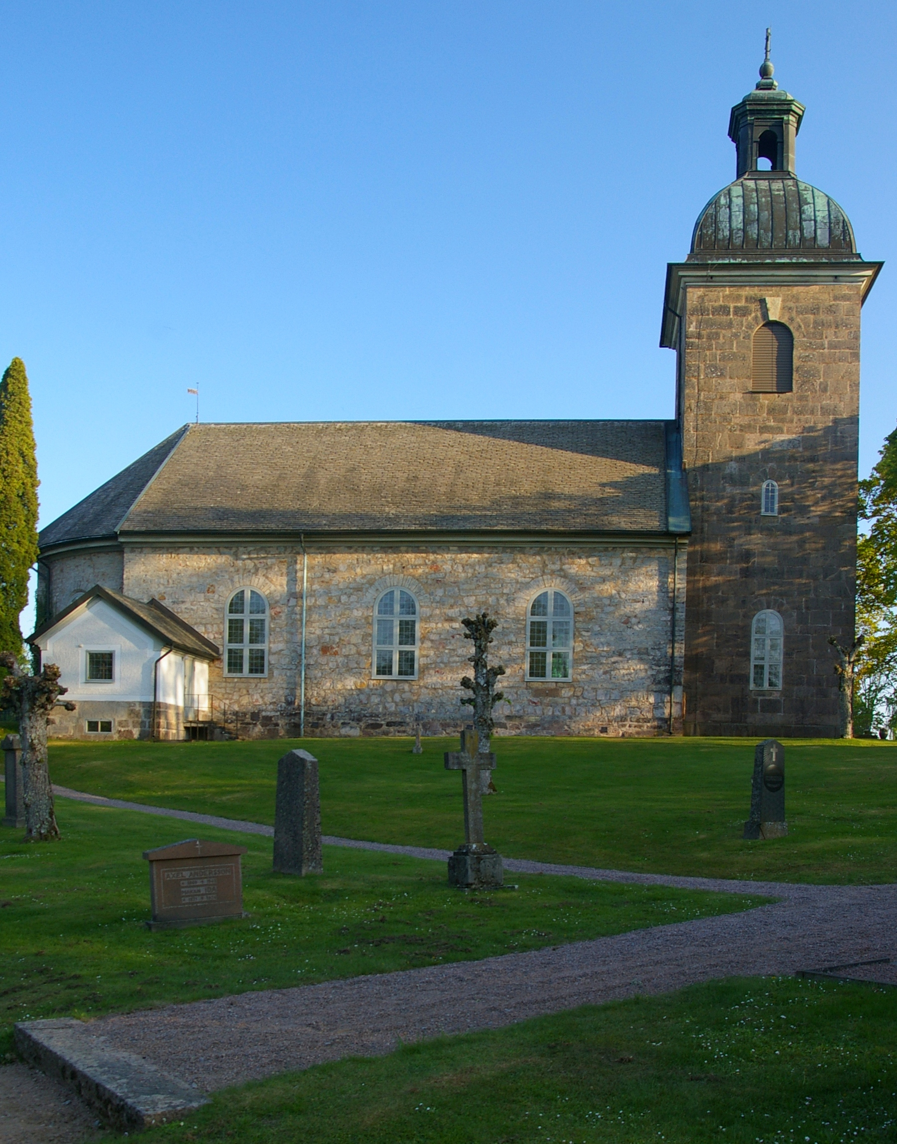 Bjärklunda kyrka (swedish:Bjärklunda church) in Skåning hundred in Västergötland and Skara municipality in Västragötaland county, Sweden.